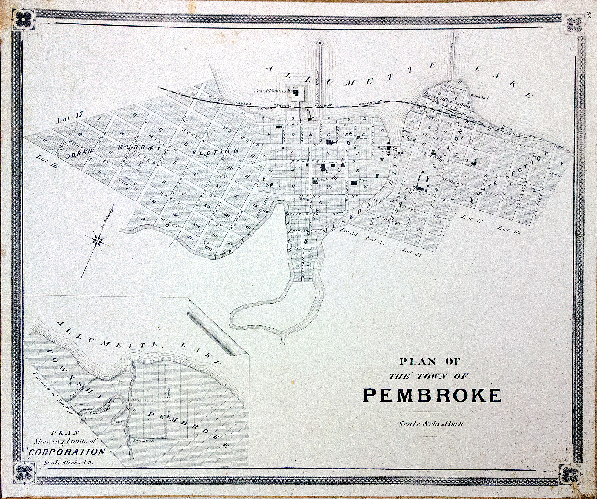 Photo taken of map at Champlain Trail Museum. November 2017.